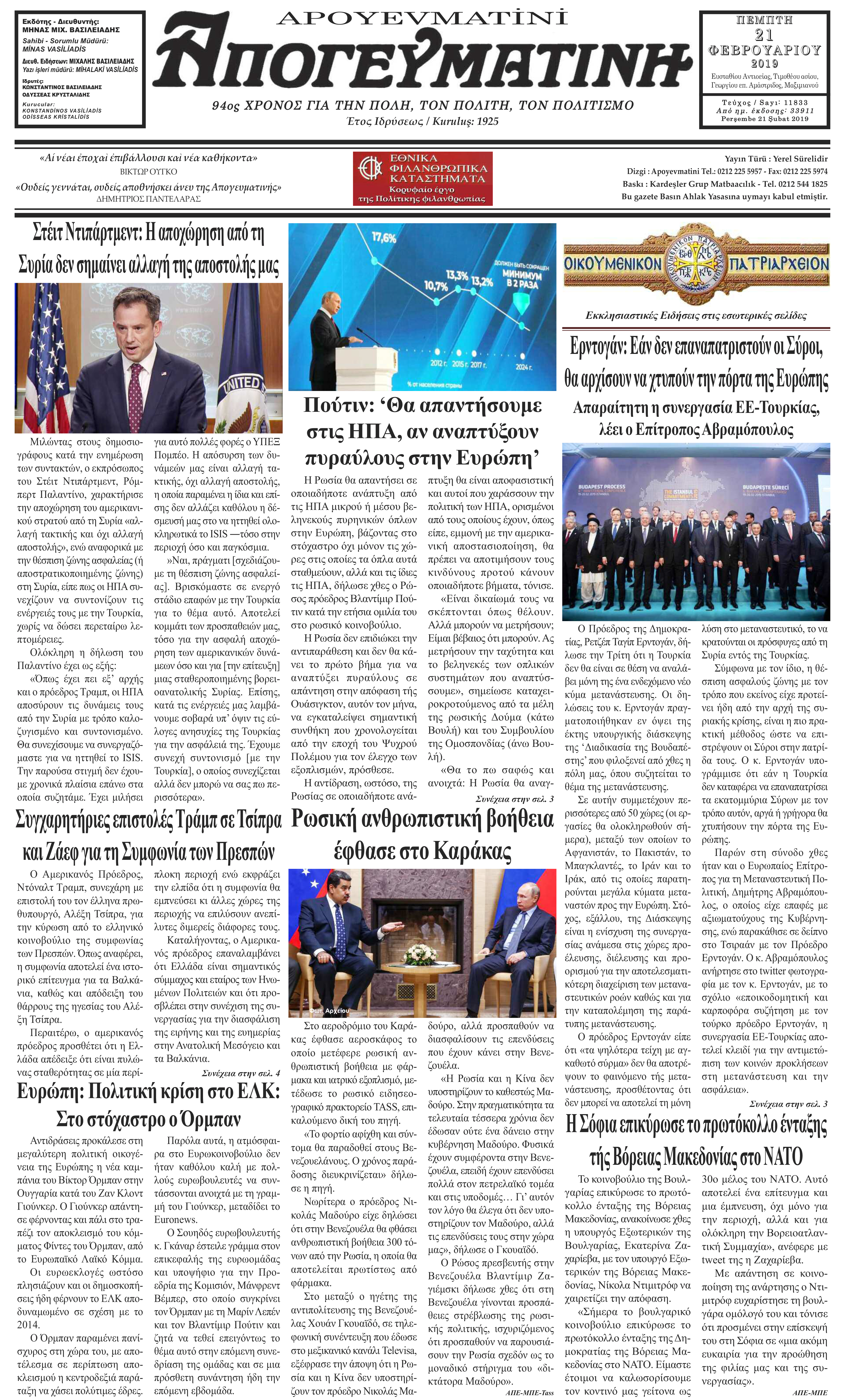 This is the front cover art for Iss: 21 February 2019 of the newspaper Apoyevmatini . The cover art copyright is believed to belong to Minas Vasiliadis.